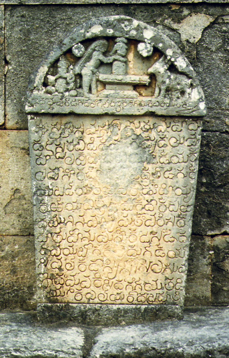 Photographh of old-Kannada Hoysala inscription (1115 CE) taken by me (Dinesh Kannambadi) at Lakshmi Devi Temple at Doddagaddavalli, Hassan district, Karnataka state, India June 2006. Source for dating of inscription:Epigraphia Carnatica: Inscriptions in the Hassan District By Benjamin Lewis Rice, Director of Archaeological Researches in Mysore, Vol 5 (Part 1), 1902, Mangalore, Bassel Mission Press, Chapters:Classified list of Inscriptions, no.134, pg XLIV; Hassan Taluq, pg 85, ins no. 134